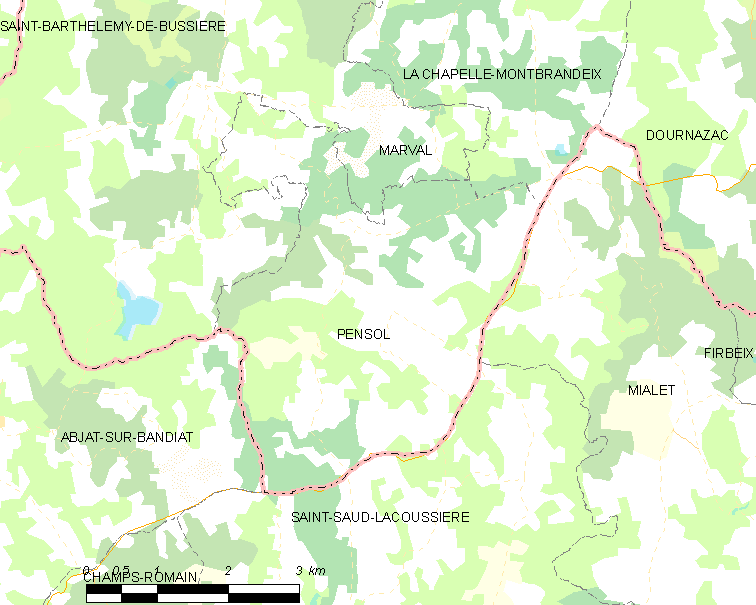 Map of French municipality Pensol